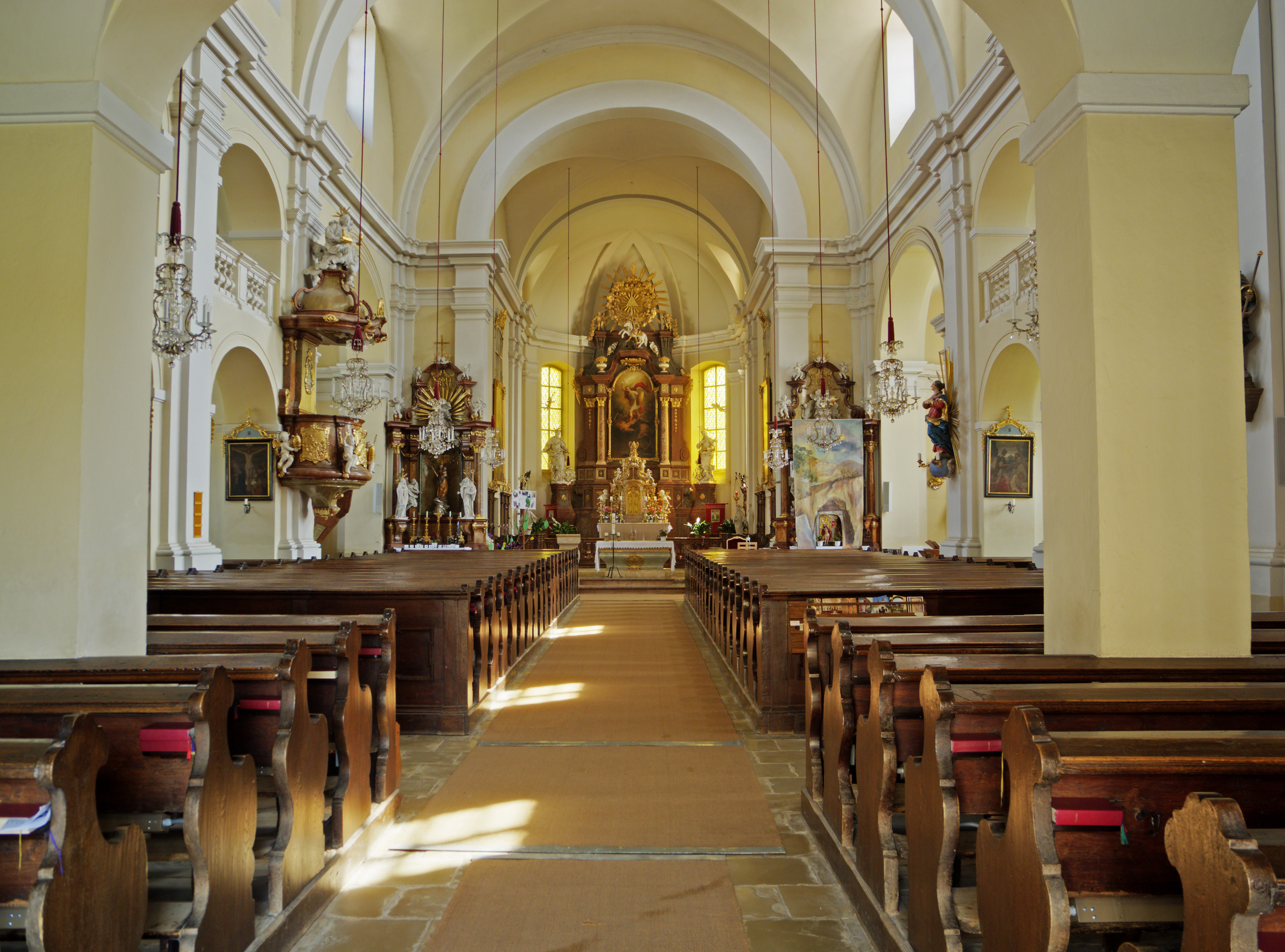 Inside the parish church of Wullersdorf, Lower Austria, Austria